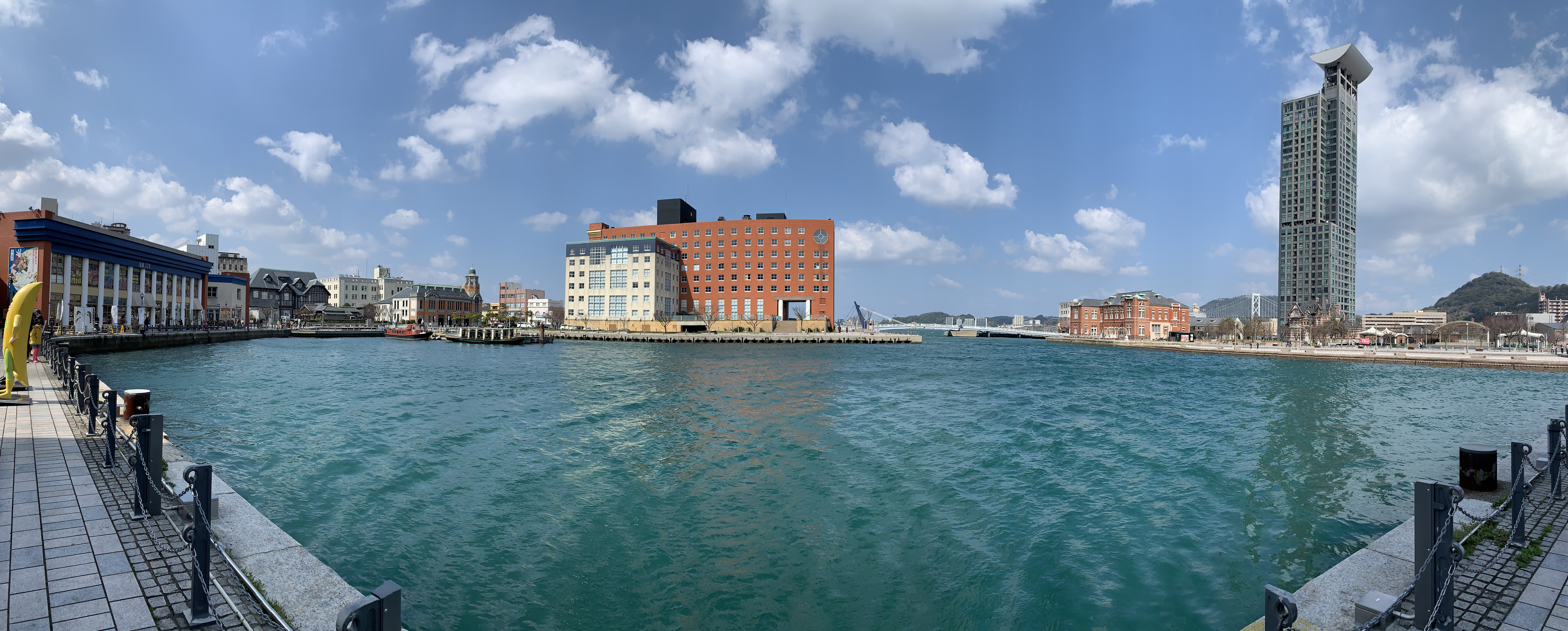 Panoramic image of Mojiko retro